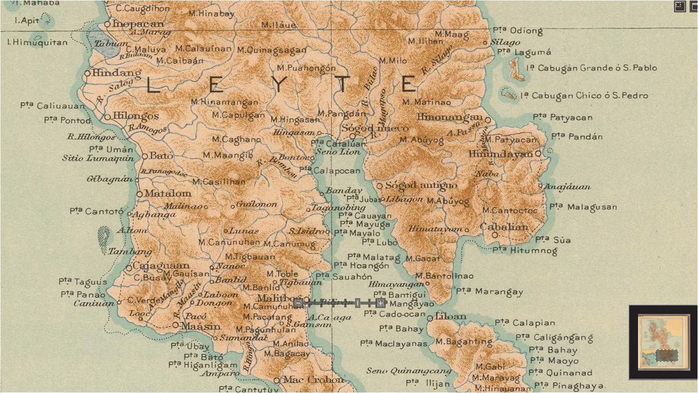 Cropped portion of the map showing the location of the town of Sogod, Southern Leyte, 1899